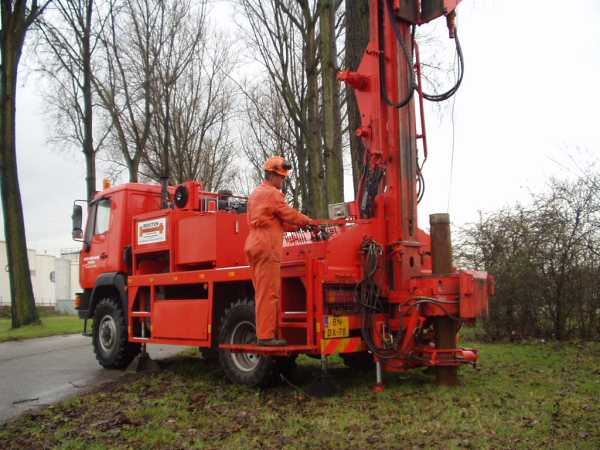 truck mounted Pile driver.